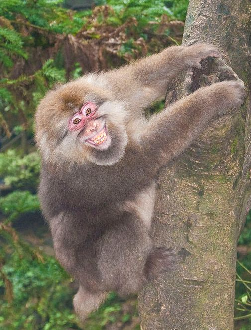 Tibetan Macaque Macaca thibetana